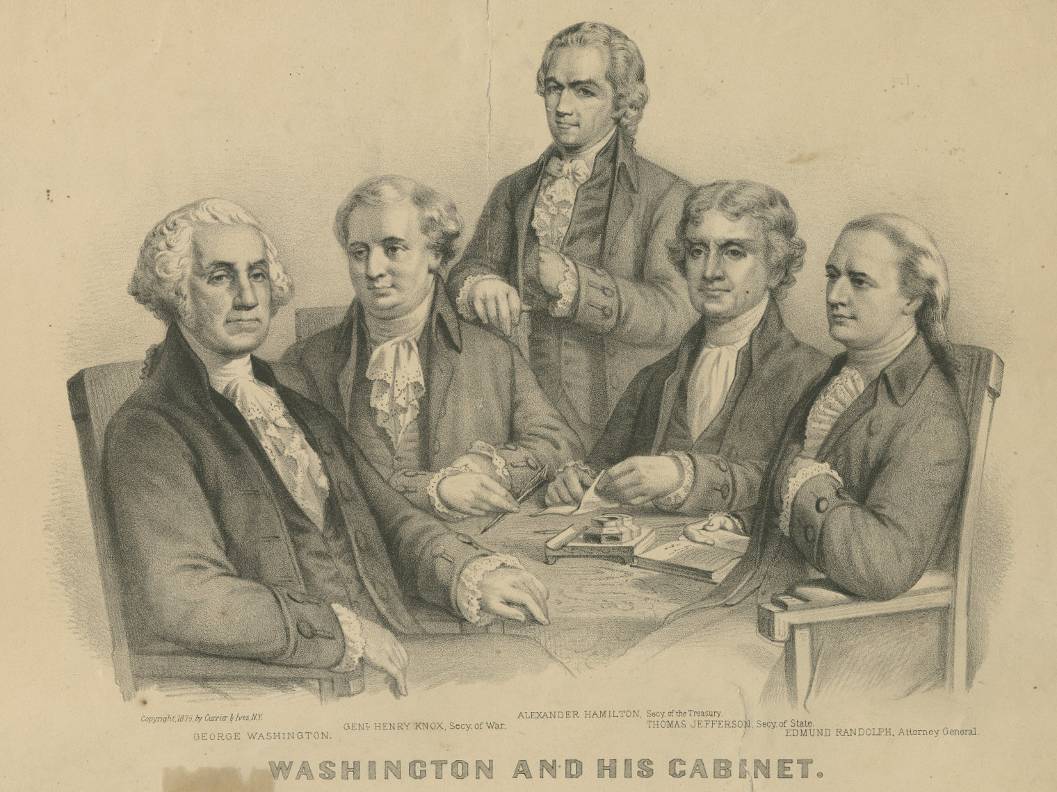 Collection: Cornell University Collection of Political Americana, Cornell University Library Repository: Susan H. Douglas Political Americana Collection, #2214 Rare & Manuscript Collections, Cornell University Library, Cornell University Title: Washington and His Cabinet Political Party: Federalist Date Made: 1876 Measurement: Print: 13.5 x 17.5 in.; 34.29 x 44.45 cm Classification: Prints Persistent URI: There are no known U.S. copyright restrictions on this image. The digital file is owned by the Cornell University Library which is making it freely available with the request that, when possible, the Library be credited as its source.